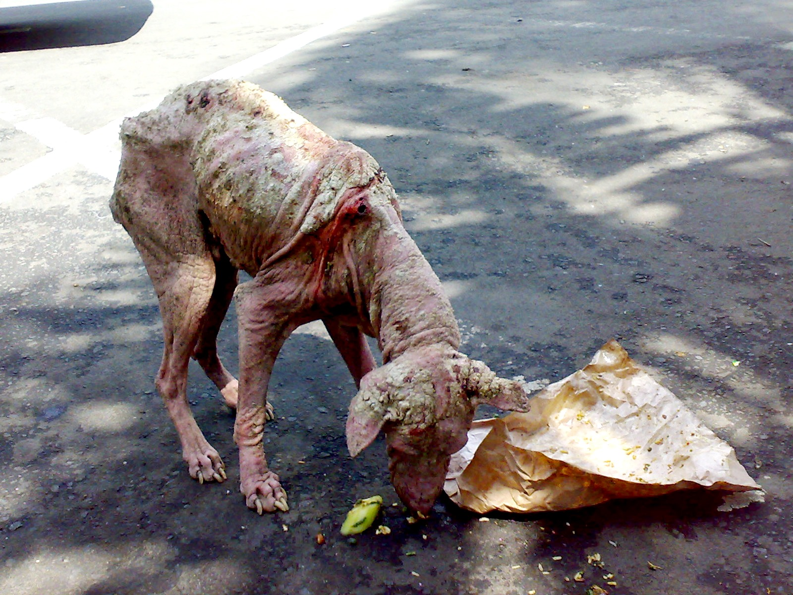 A feral street dog photographed on the main road of the city of Gianyar, Bali, Indonesia. This is a common sight as there are about a half a million feral dogs on the island and they get no care and subsist on the bits of rice in offerings and garbage. This animal is suffering from demodectic mange, the animal also suffers from a bullet wound to the shoulder .